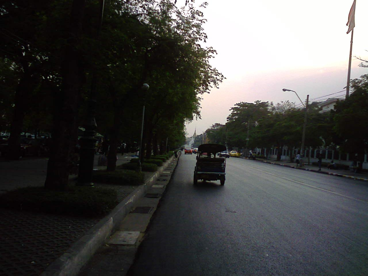 Naprathat street